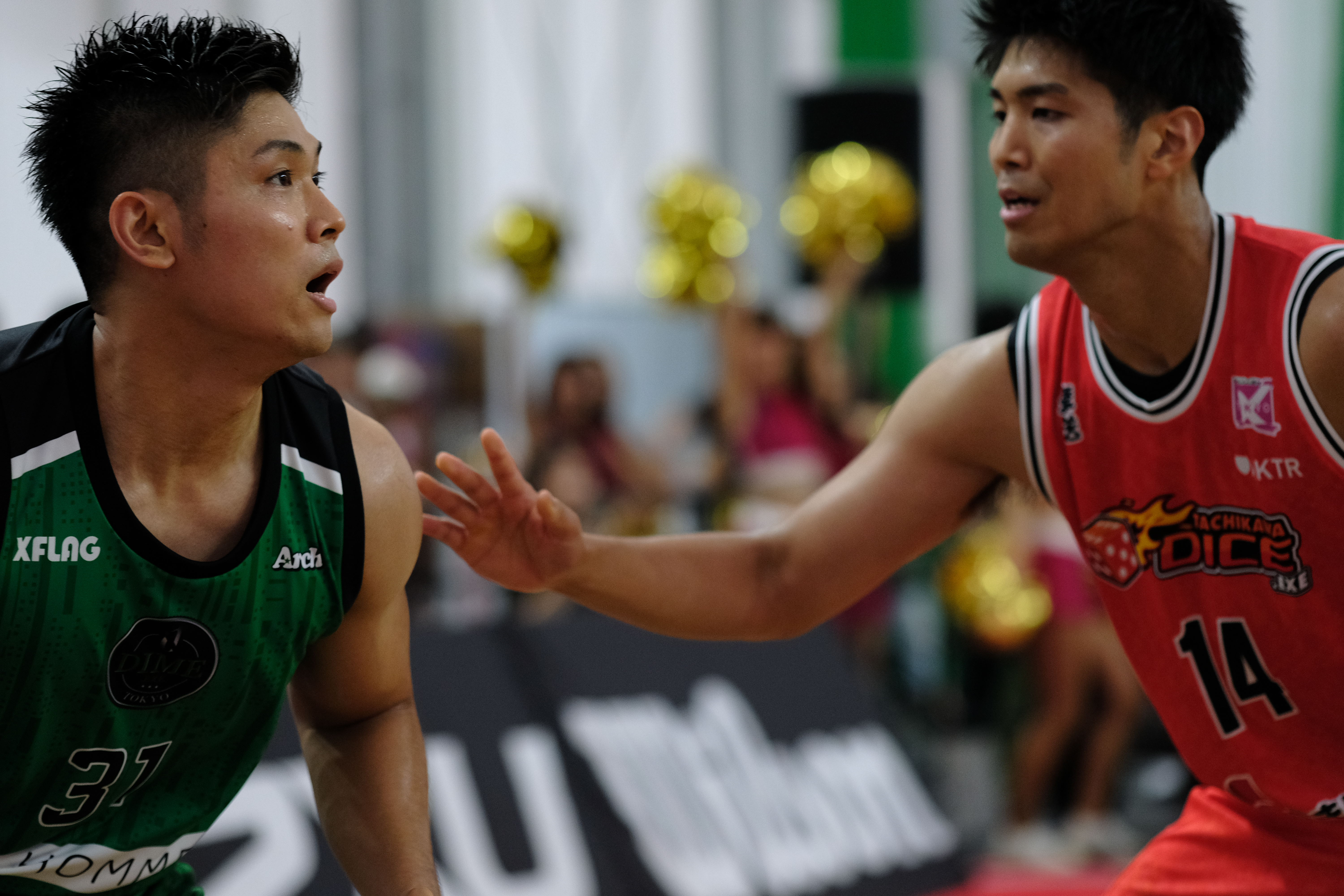 Yusei Sugiura